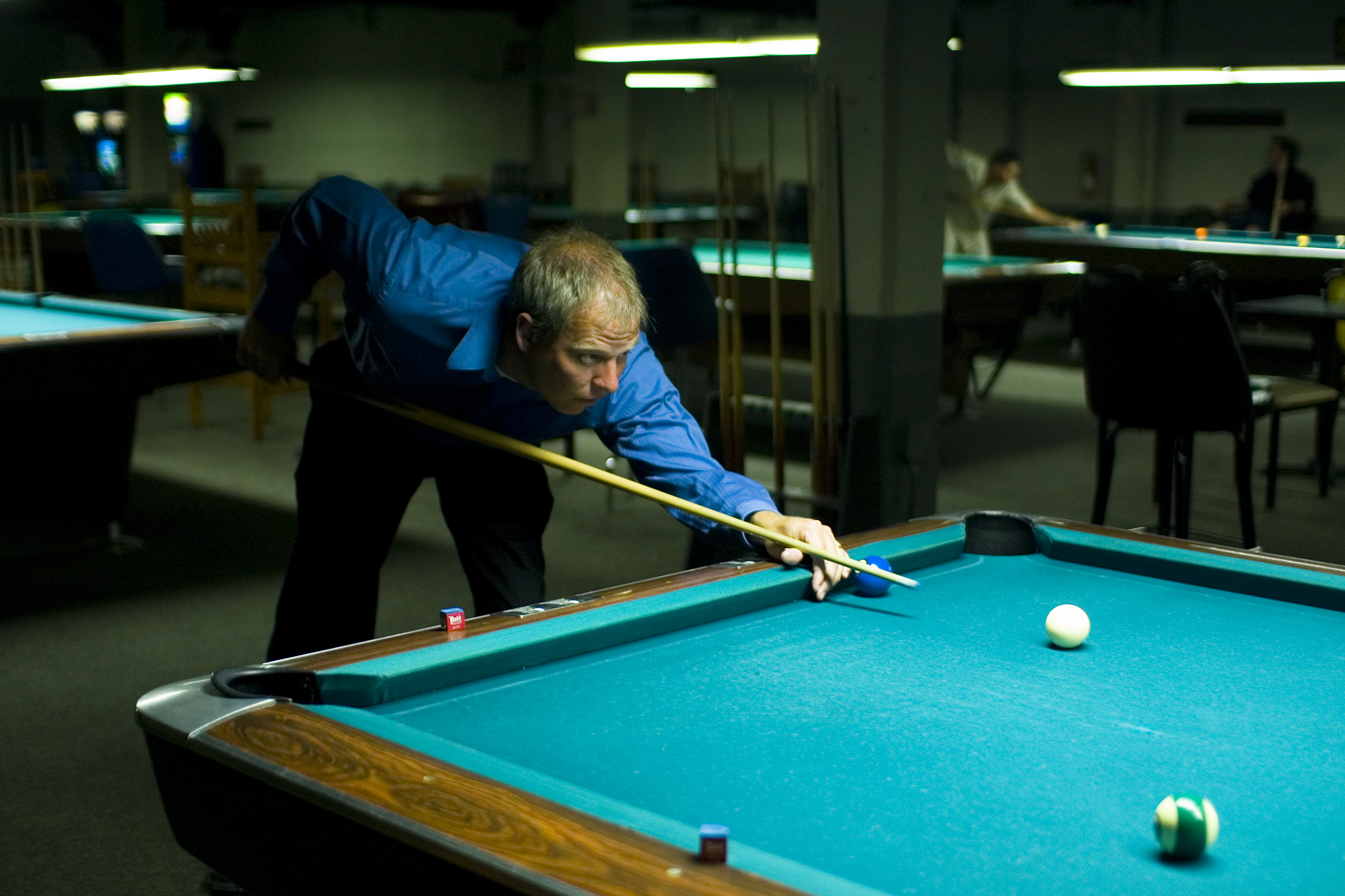 The lighting in pool halls is just amazing. This is from last night at a place in Chicago called Chris's Billiards where parts of The Color of Money were filmed.